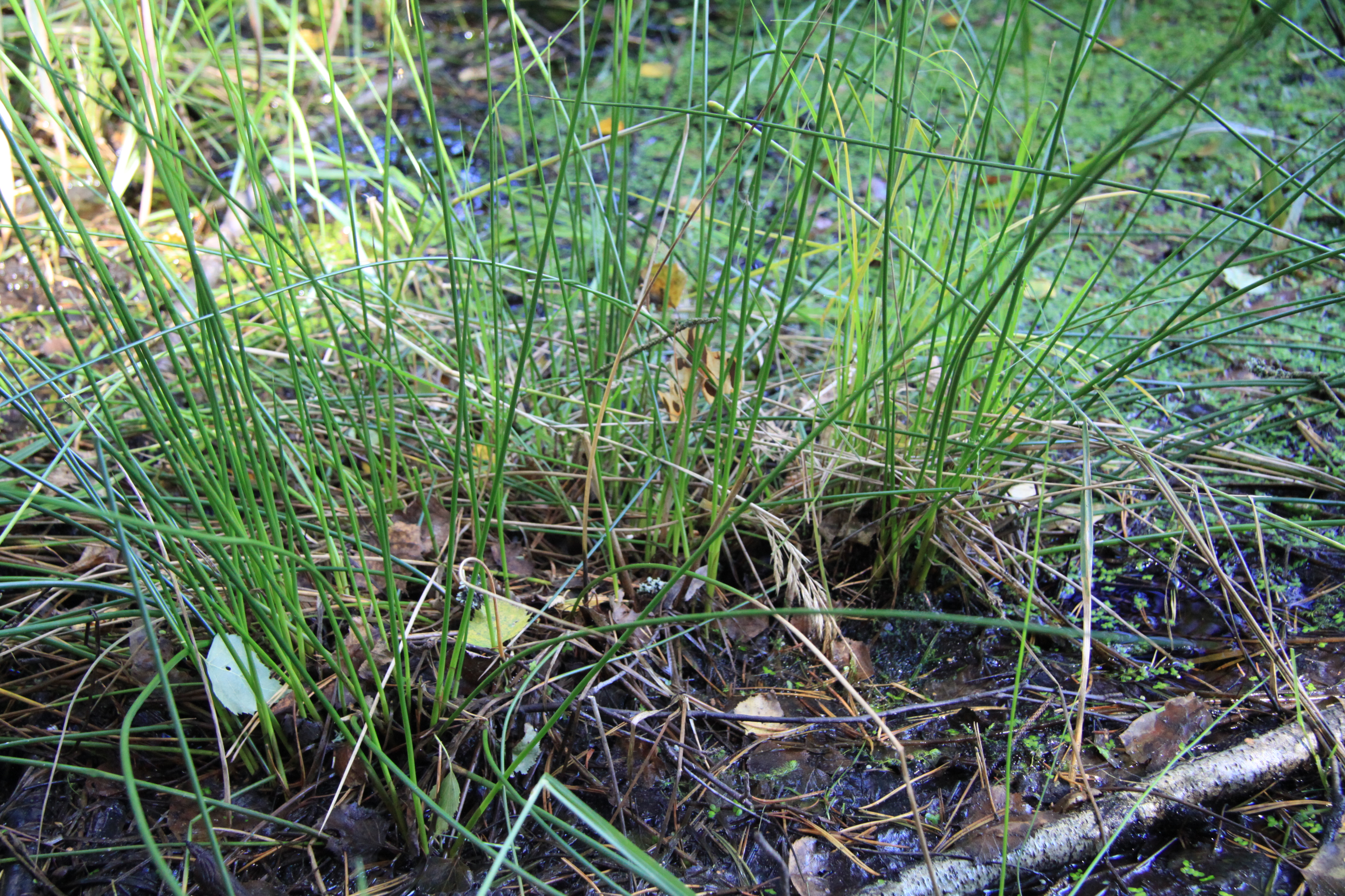 Natural monument Bachmač in Písek District, Czech Republic. This area is protected due to bog